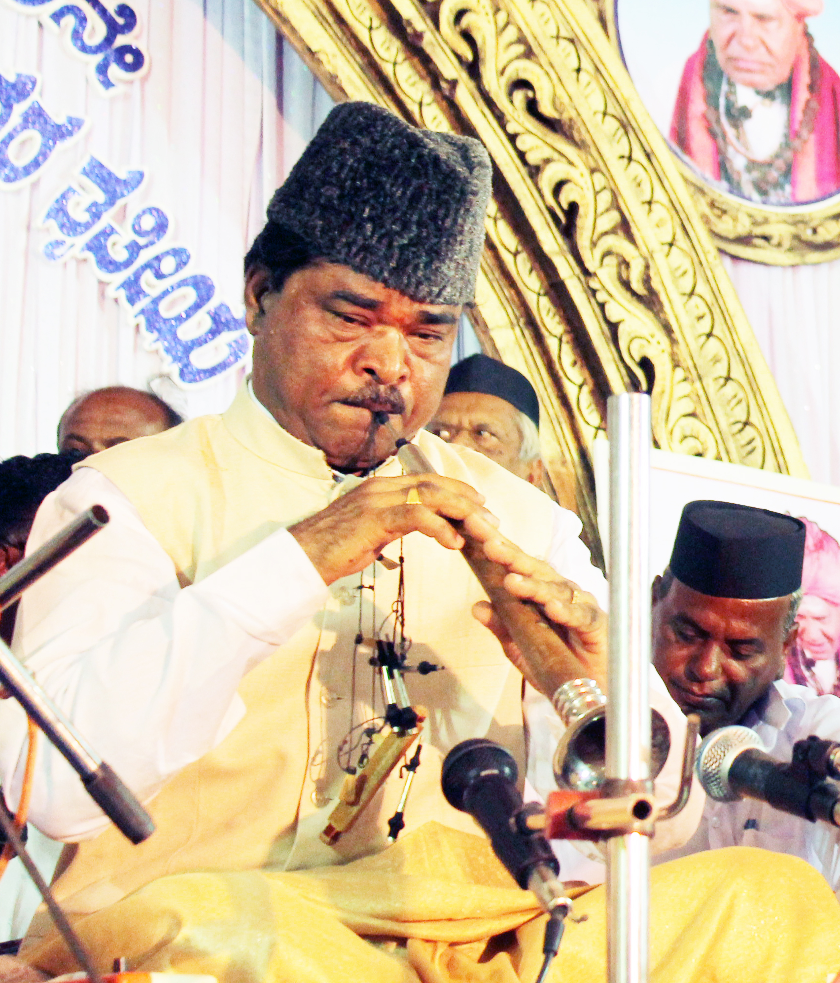 Shehnai Nawaz Pandit S. Ballesh in Concert - Gadag